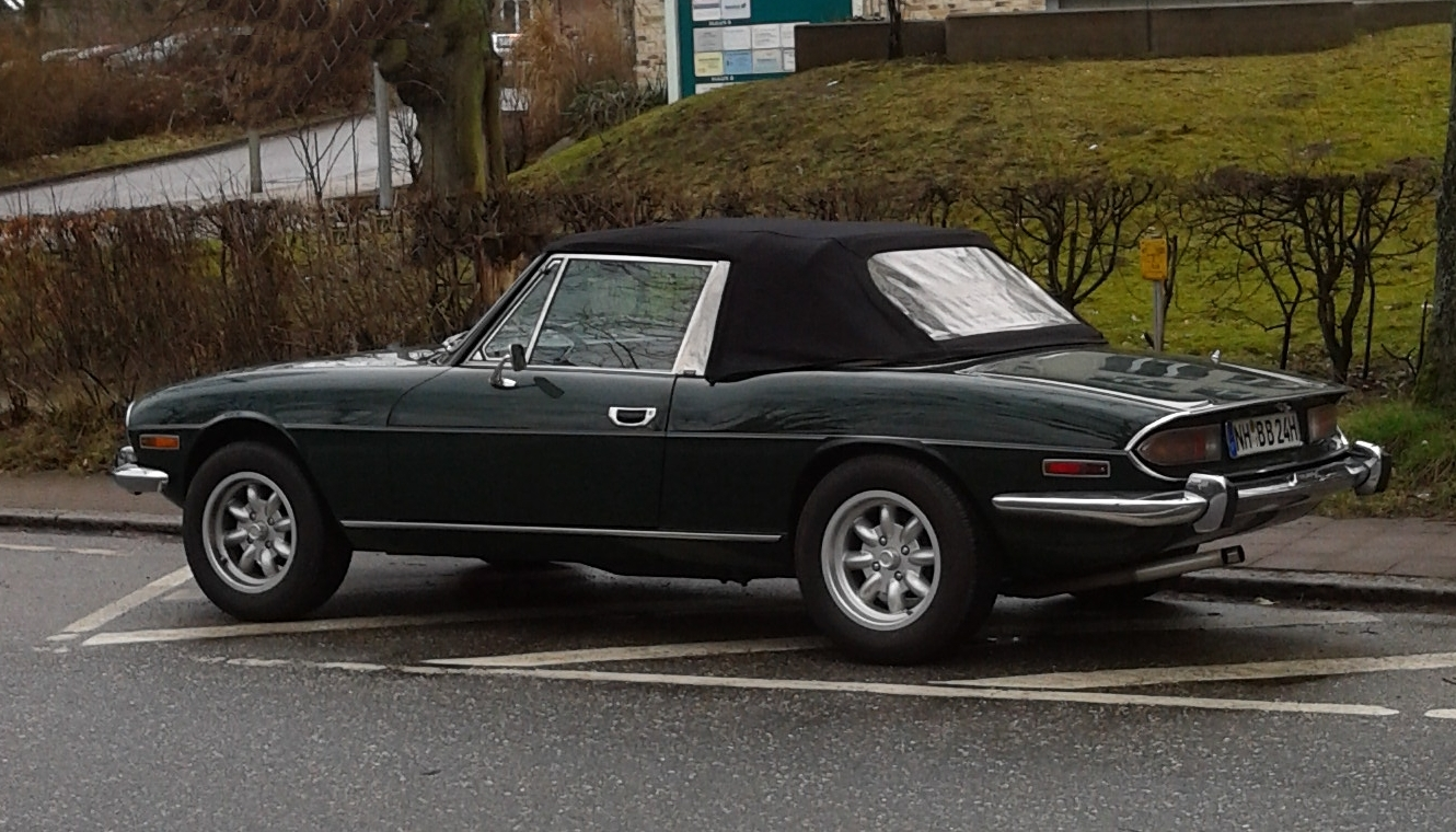 Triumph Stag